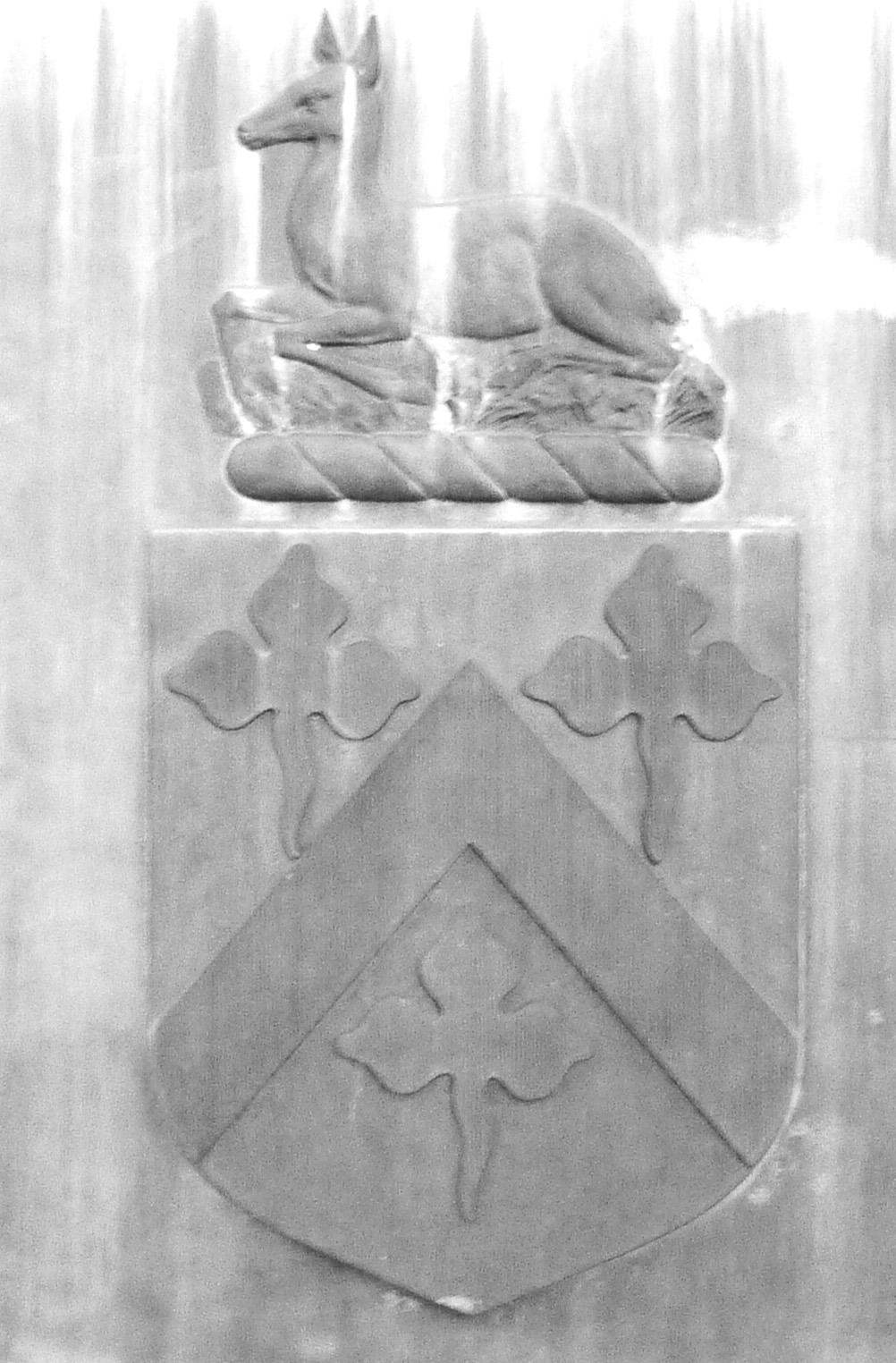 Captain John Underhill family crest. John Underhill (7 Oct, 1597 – 21 July 1672) was an early English colonist in the Massachusetts Bay Colony and a soldier known for his great charisma, his excellent military leadership, and as one of the bravest men of his day. He is most noted for making the New Netherlands and Long Island secure from attacks by Native-Americans in the Pequot War of 1637 and another on Long Island in 1644.